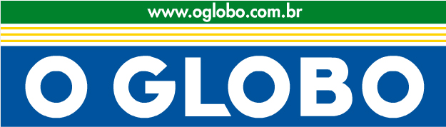 Logo of Brazilian newspaper O Globo